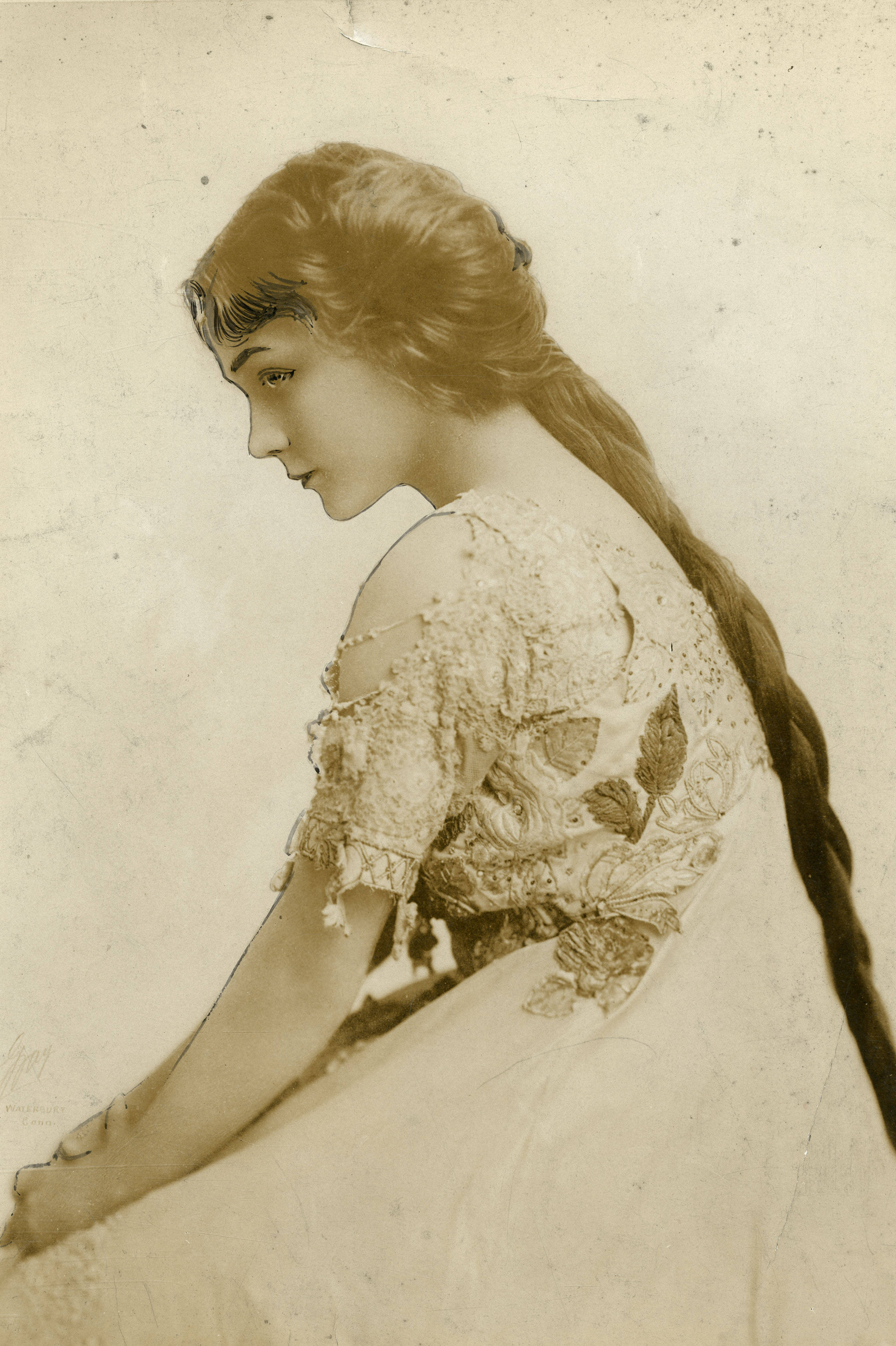 Bird Millman Subjects: vaudeville